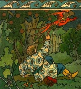 Postcard. The character from a Russian fairy tale